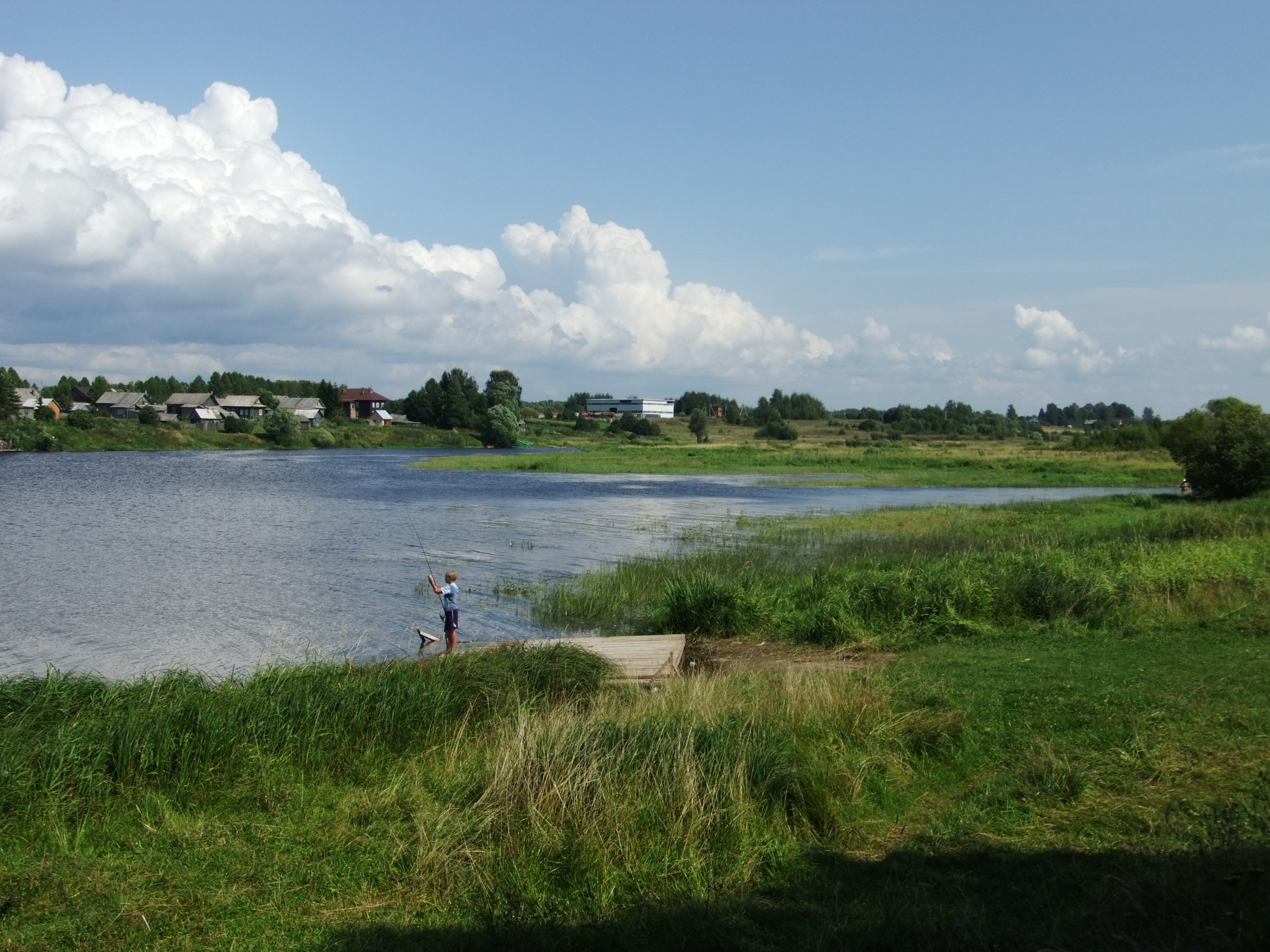 The Soga River on the eastern outskirts of Poshekhonye, Yaroslavl Oblast, Russia